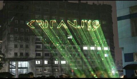 Kritanj at NiT, Kolkata